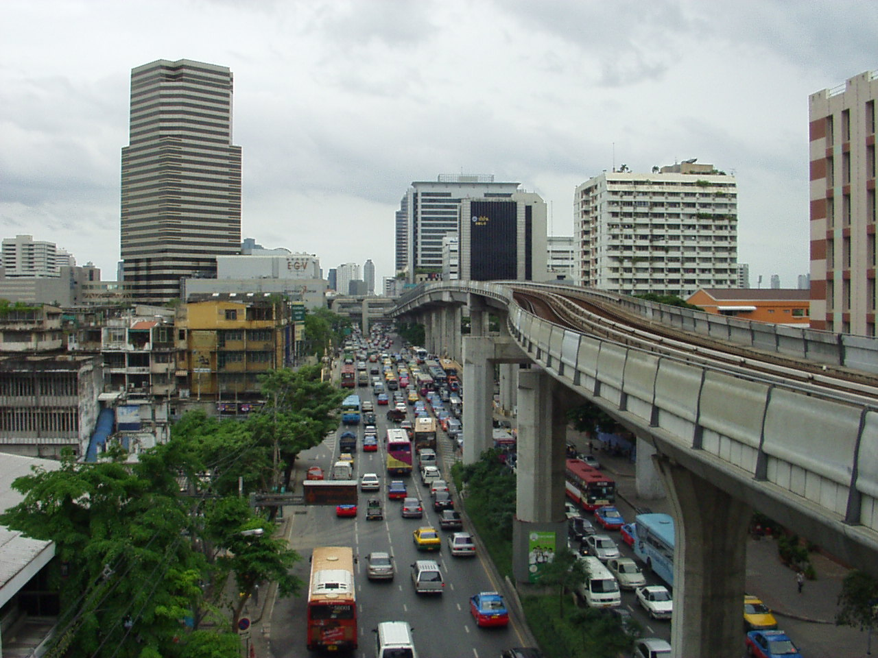 View of a traffic jam in the center of Bangkok from Ratchathewi Skytrain station